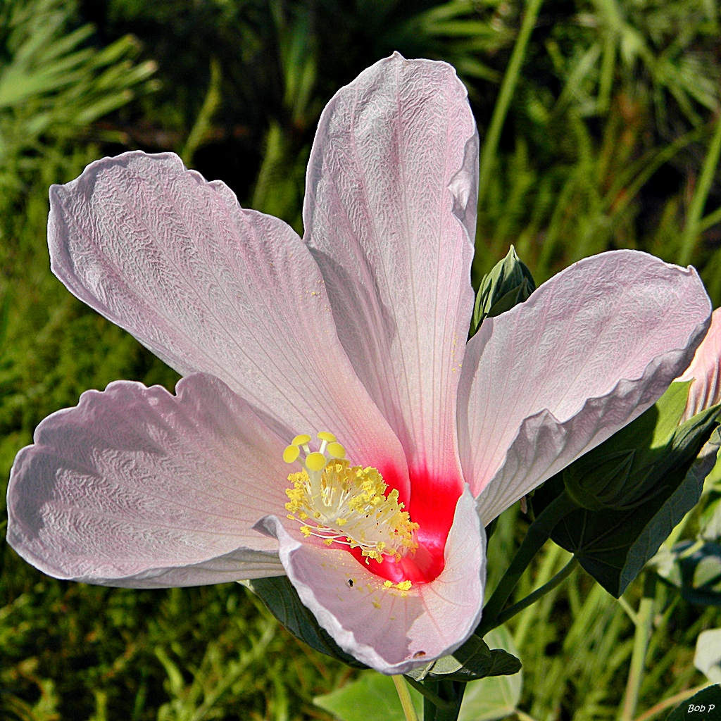 It was worth wading to visit my favorite native Hibiscus. This particular group is difficult to get to. They live in a swampy sawgrass depression that is nearly 3 feet deep this year (courtesy of TS Isaac). Last year, they didn't even bloom. The flowers are huge, much larger than the more common H. furcellatus or Kosteletzkya virginica. Jupiter Ridge Natural Area, Palm Beach County.